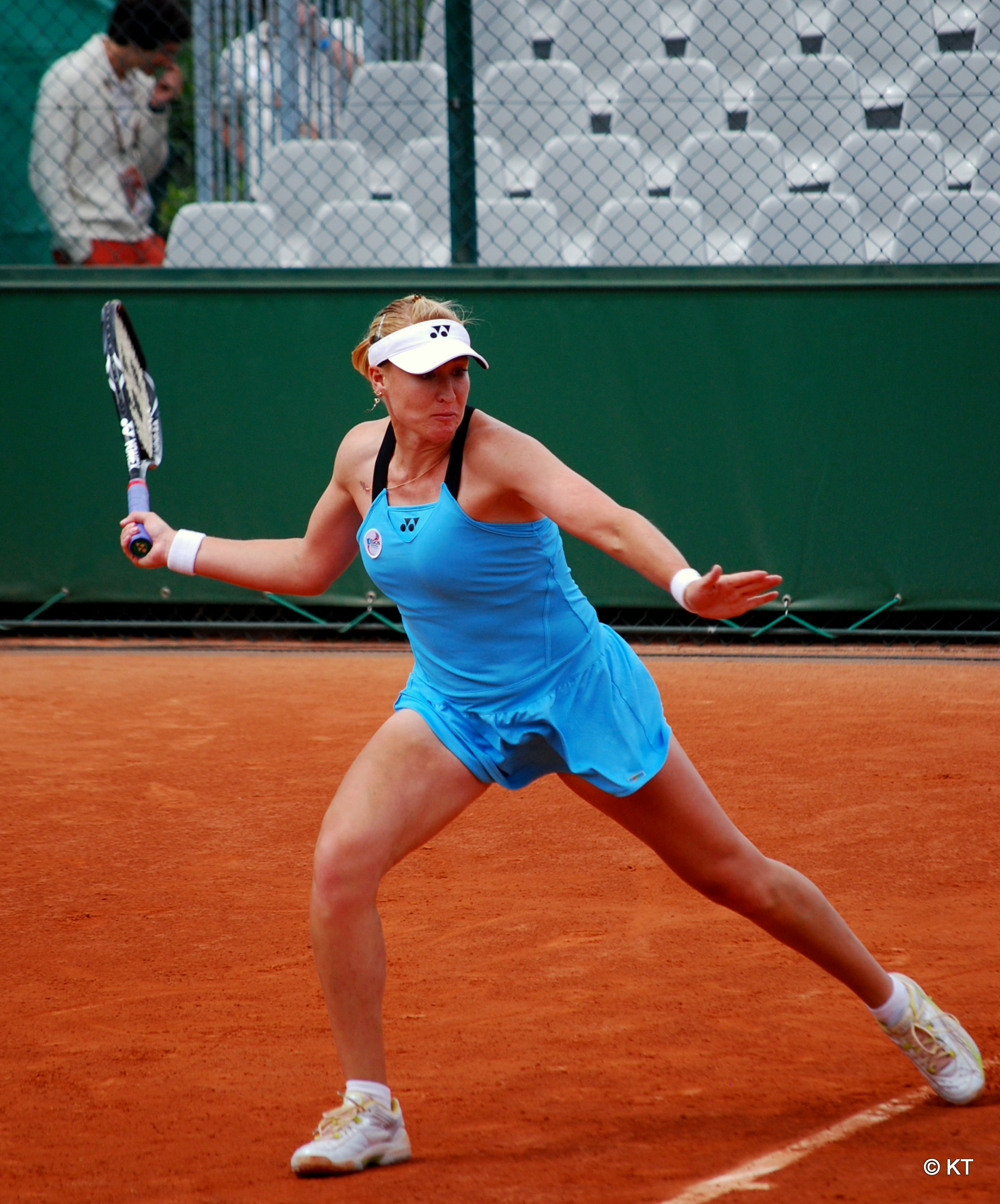 Elena Baltacha at the 2011 French Open against Vania King in the second round